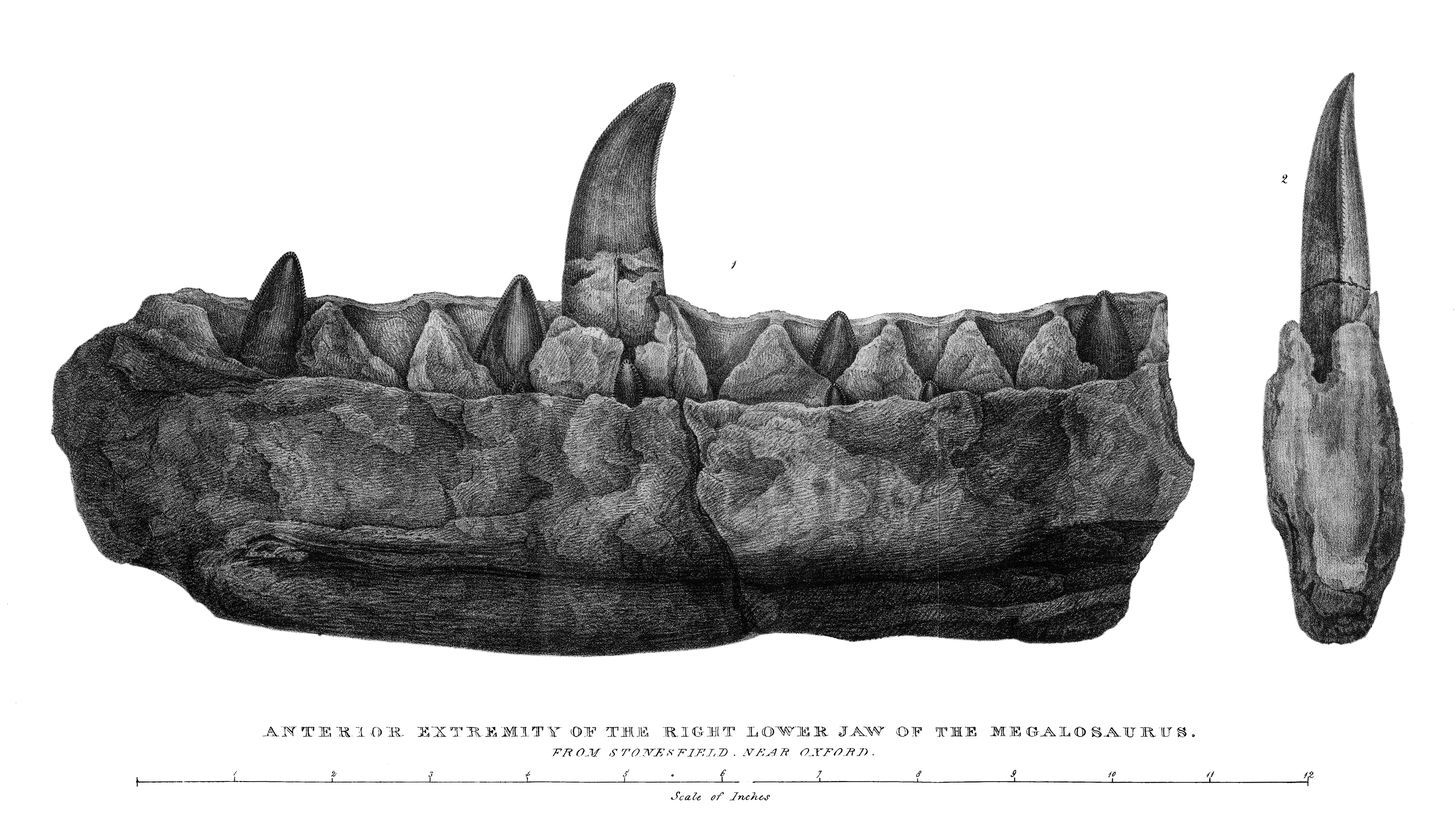 Historical engraving of the lectotype dentary, Oxford University Museum of Natural Histroy (OUMNH) J.13505, of Megalosaurus bucklandii Mantell, 1827 from the middle Bathonian Stonesfield Slate of Oxfordshire, England. These figures were published together with the first detailed description of the Megalosaurus bucklandii type material by William Buckland in 1824, who, however, did not coin a specific Linnean binomen for it but only used the name Megalosaurus (hence Buckland is only regarded the authority of the genus name, not of the specific binomen Megalosaurus bucklandii).The caption below the figures reads “Anterior extremity of the right lower jaw of the Megalosaurus. From Stonesfield, near Oxford.”The original explanation of the plate reads “PLATE XL. No. 1. Inside view of the anterior portion of the lower jaw of the Megalosaurus on the right side. This drawing is of the actual size of the specimen. No 2. Transverse section of No. 1, showing the manner in which the tooth is lodged in the lower jaw.”[1] ↑ digital copy of the explanation at Biodiversity Heritage Library